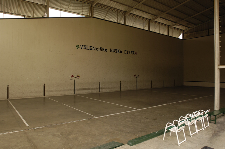 Pelota court in the Eusko Etxea of Valencia, VenezuelaEuskara: Valenciako (Venezuela) eusko etxeko pilotalekua